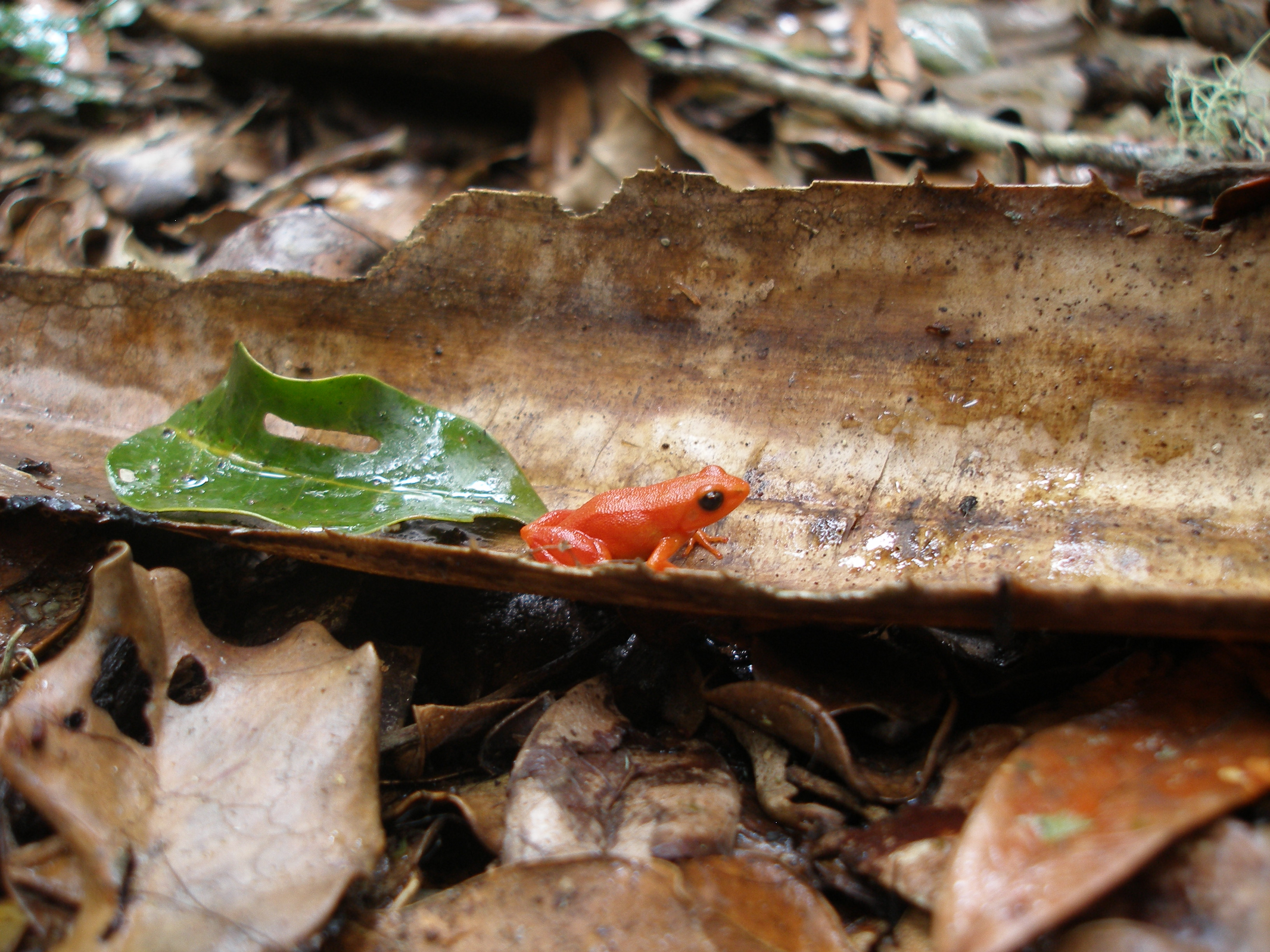 Mantella aurantiaca - Torotorofotsy population #1